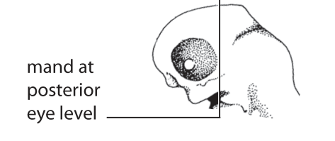 Standard Event System character depiction